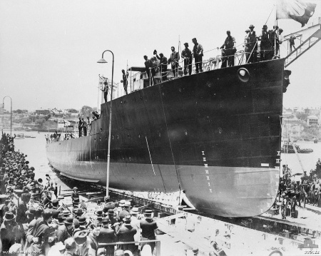 AWM caption : "COCKATOO ISLAND DOCKYARD, SYDNEY, NSW. 1915-12-11. THE LAUNCHING OF THE DESTROYER HMAS SWAN (I) BY LADY CRESWELL."